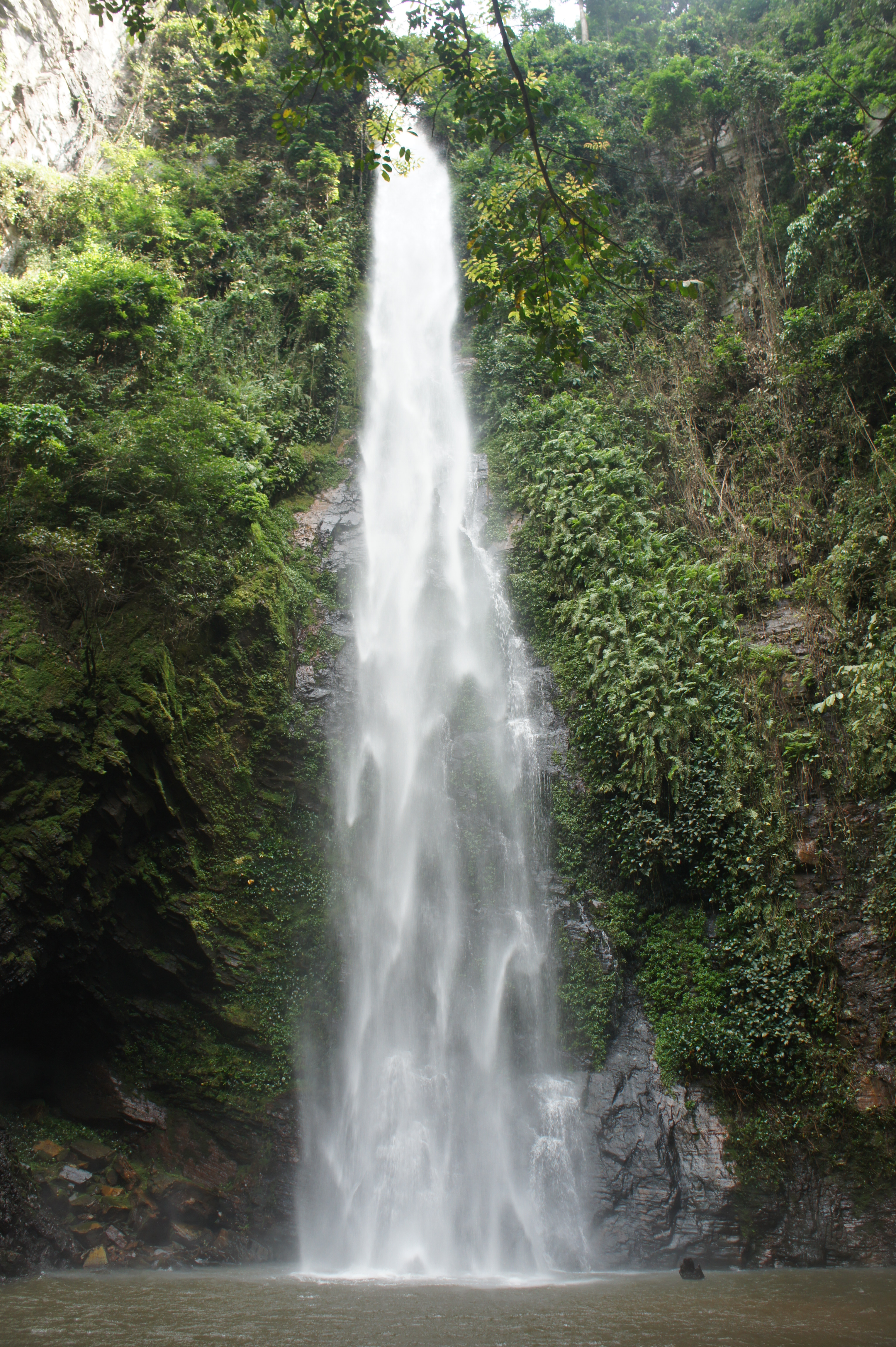 This is Tagbo Falls, Volta Region, Ghana.